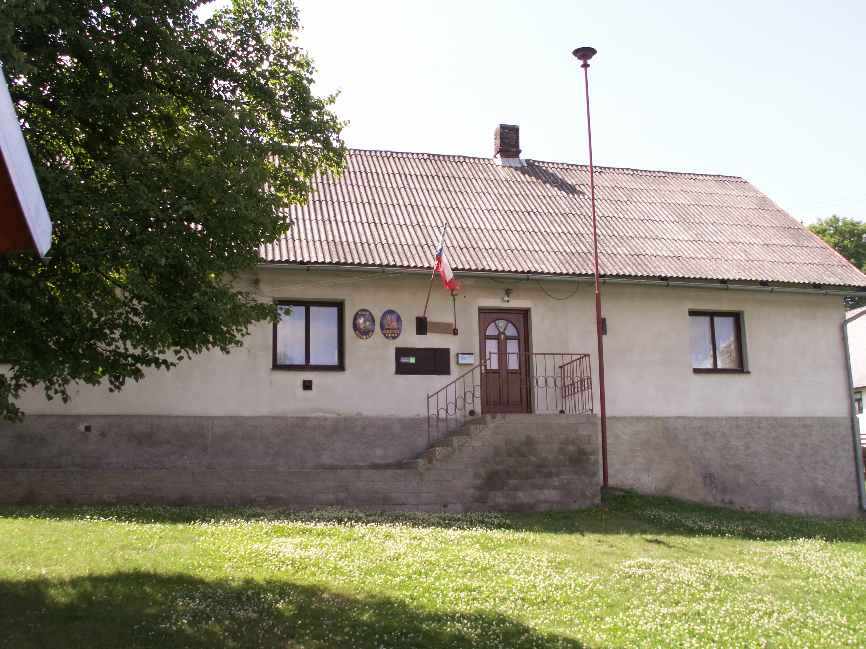 KONICA MINOLTA DIGITAL CAMERA, budova obecního úřadu v obci Bezděkov, okres Havlíčkův Brod